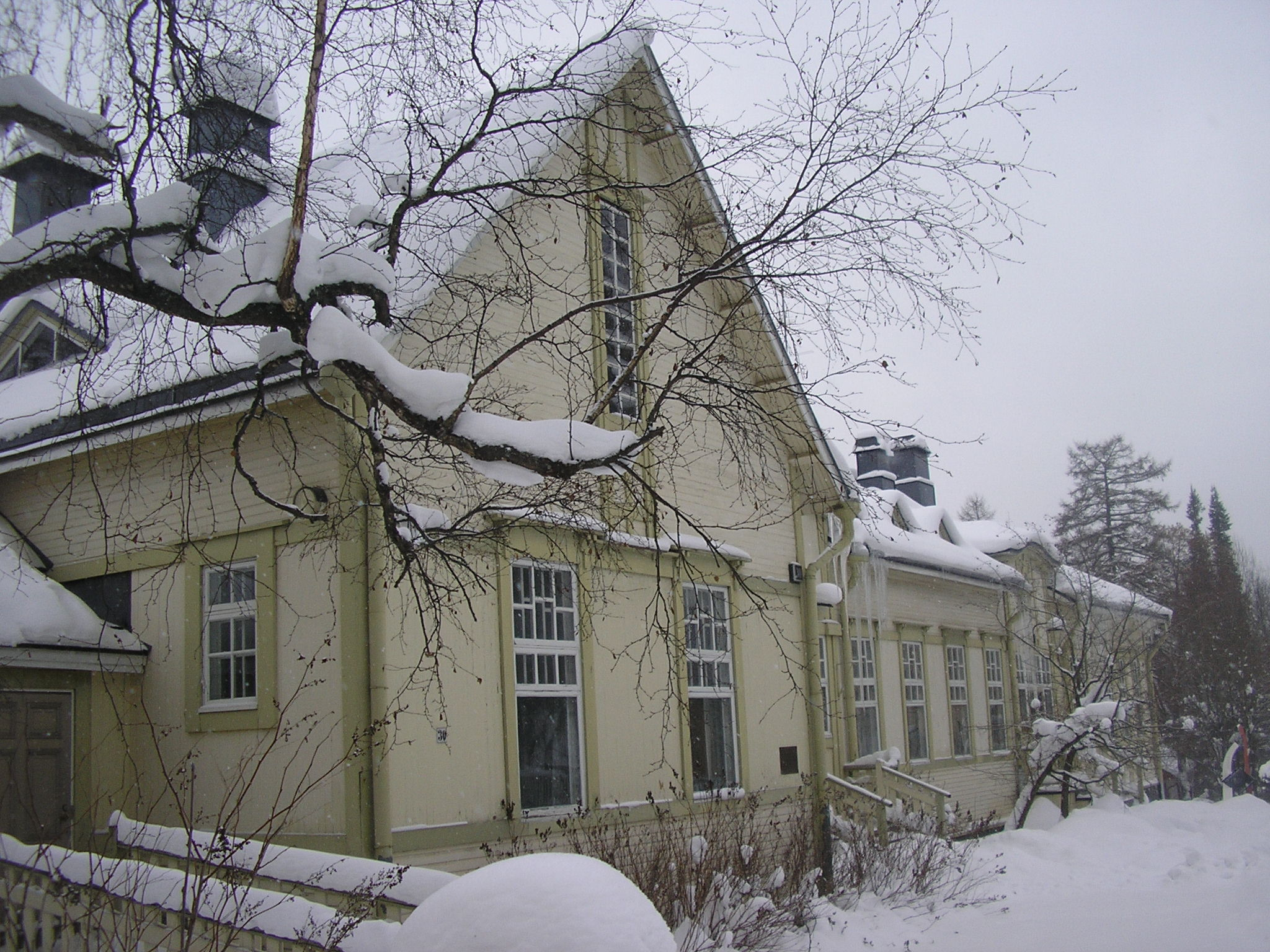 House of Finnish industrialist Hanna Parviainen in Jyväskylä. Build in 1908 and designed by W. G. Palmqvist.